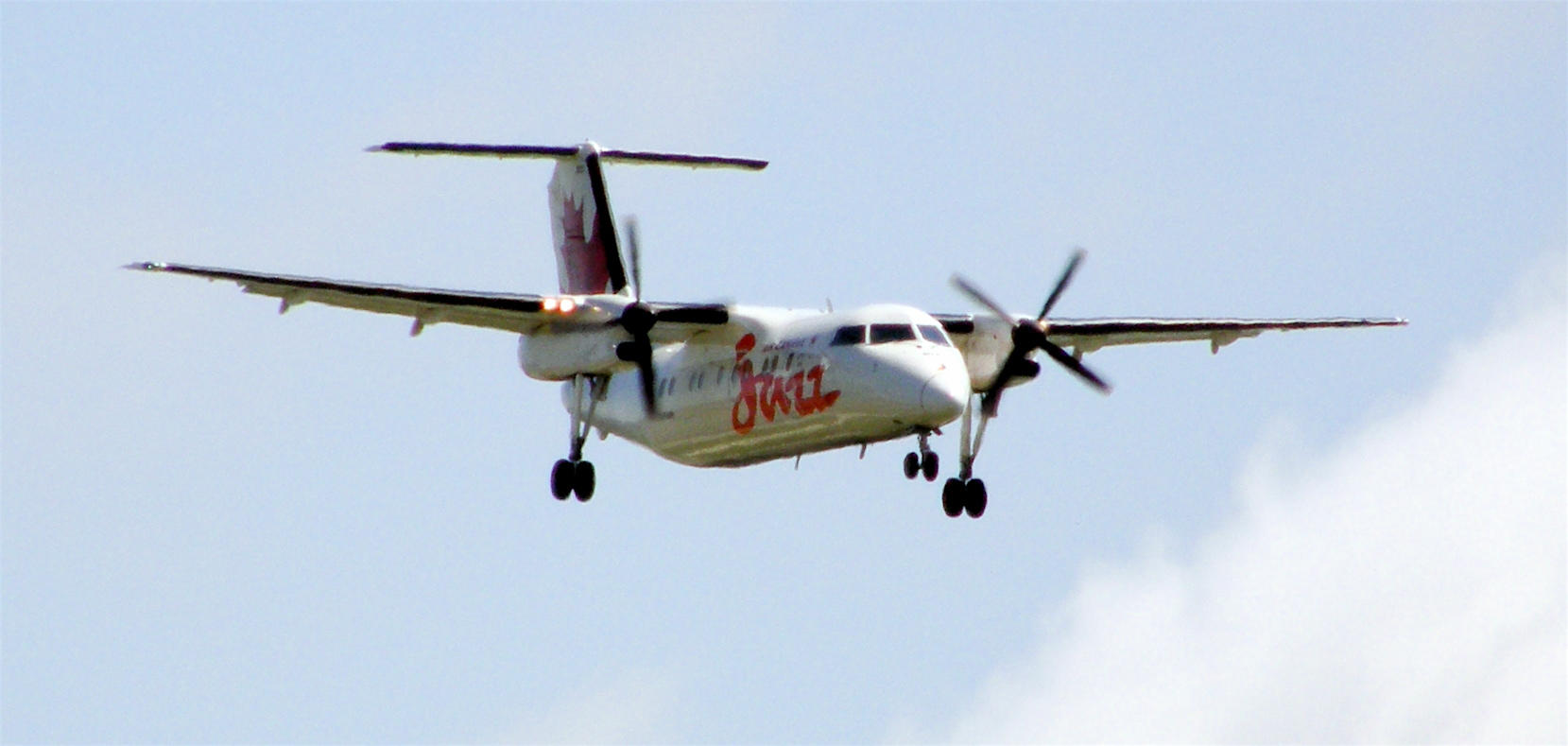 An Air Canada Jazz Bombardier Dash 8 landing at Vancouver International Airport